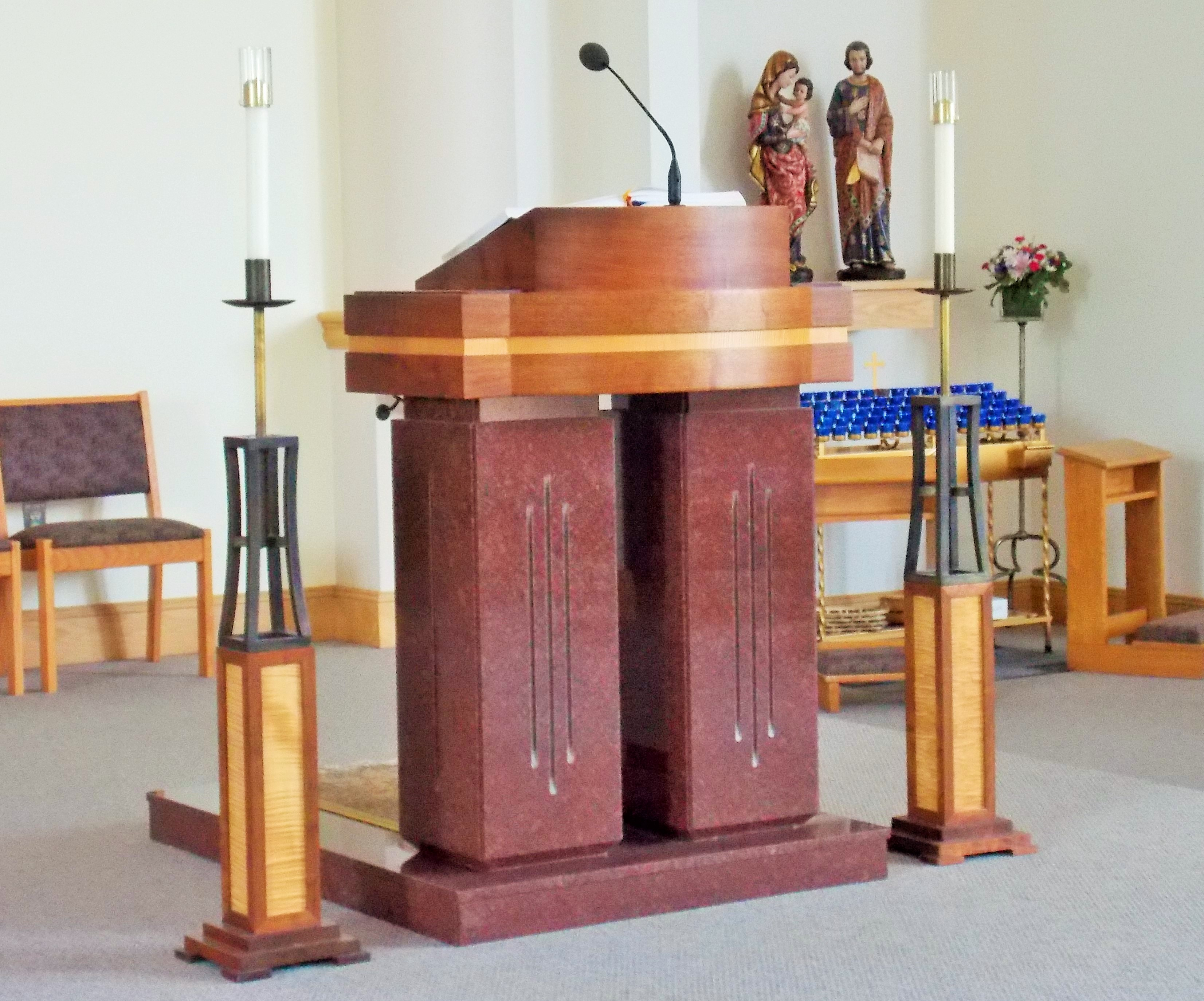 The ambo in Saint Joseph's Catholic Church on Montgomery Road in Beltsville, Maryland.